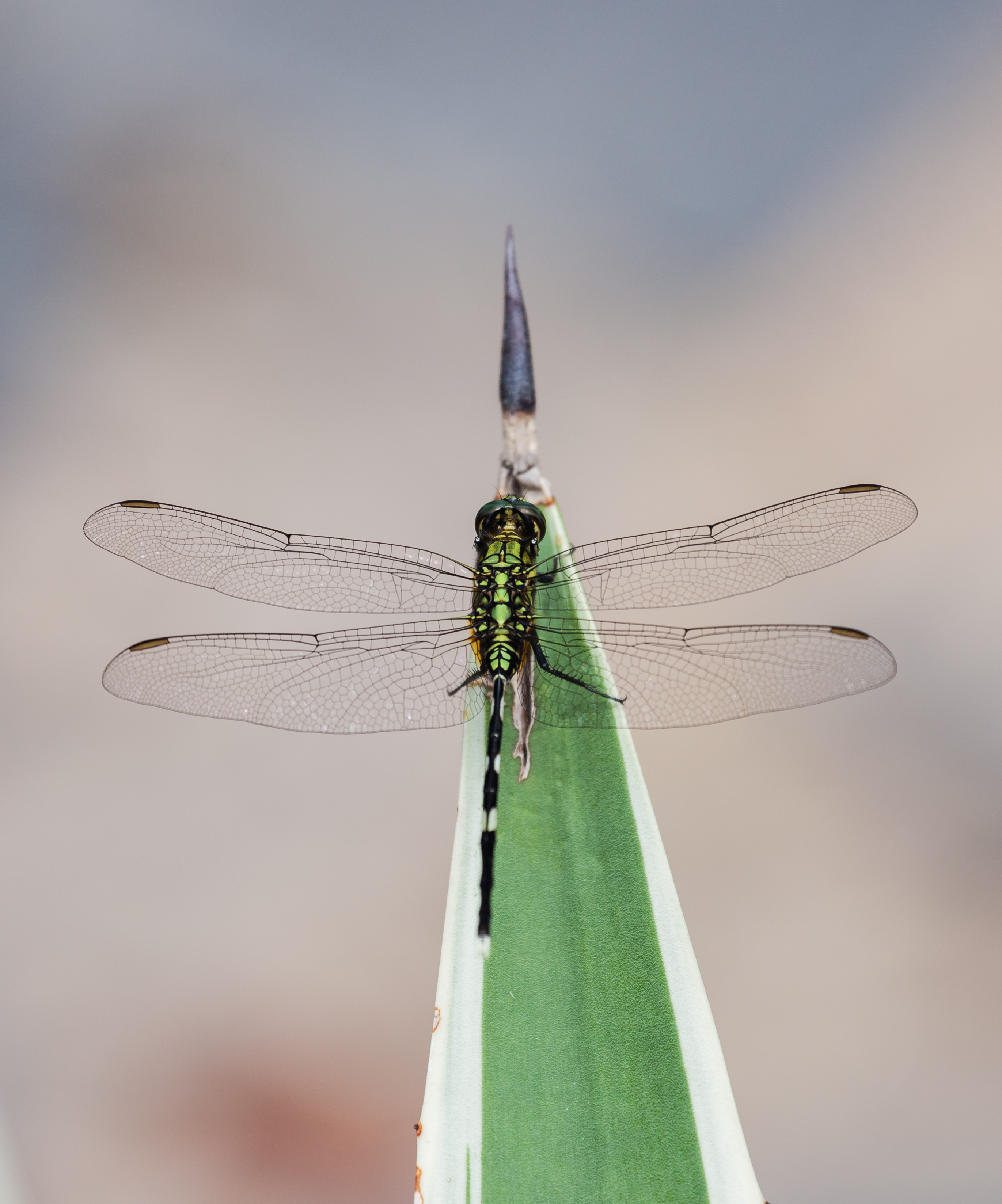 Dragonfly (Orthetrum sabina), Ho Chi Minh City, Vietnam